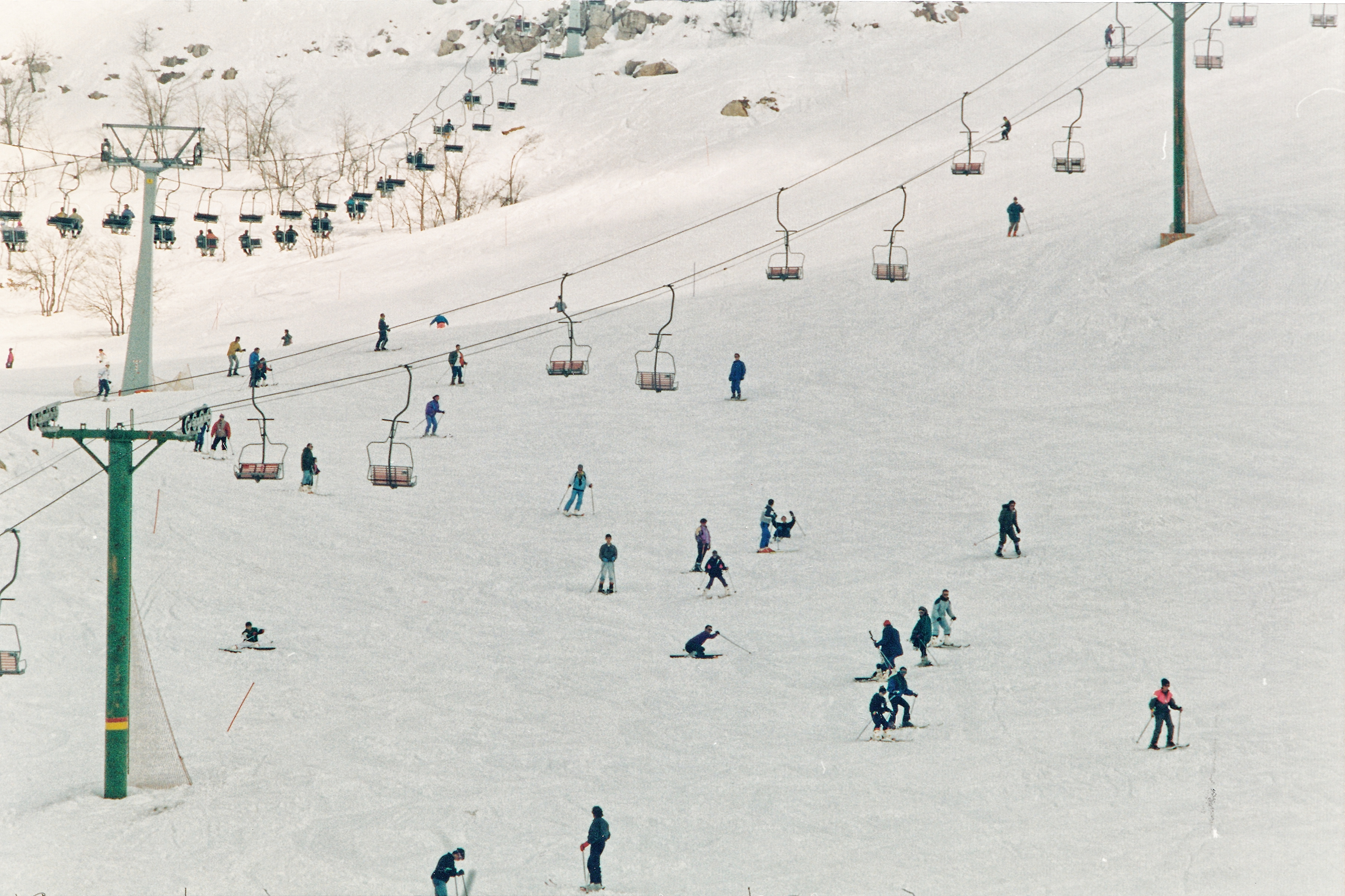 Mount Hermon